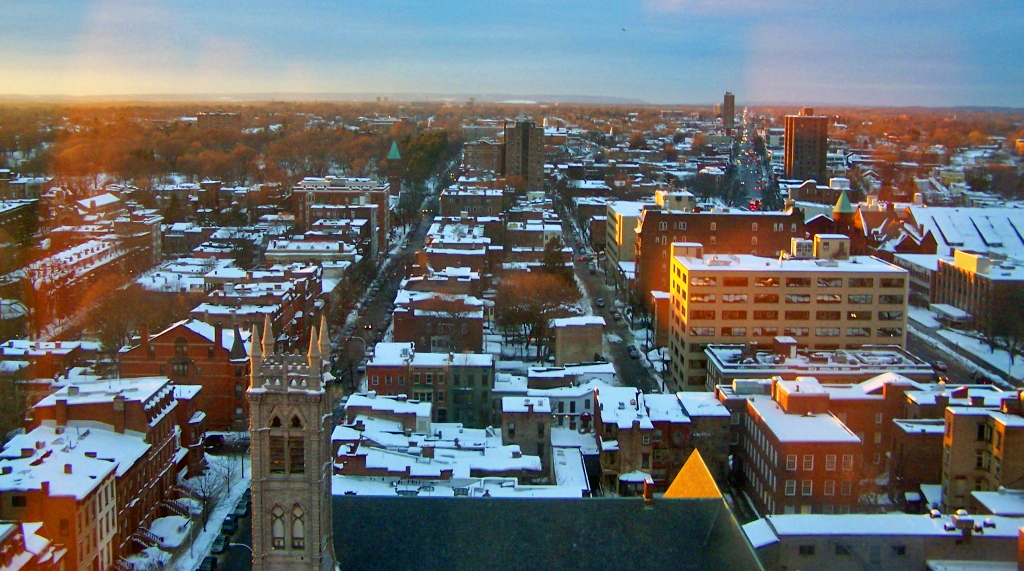 View over Center Square neighborhood, Albany, NY, USA, near the end of a winter day from the Alfred E. Smith Building